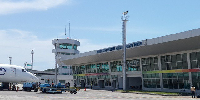 View of the terminal and air traffic control tower at Colonel Carlos Concha Torres Airport, Esmeraldas, Ecuador